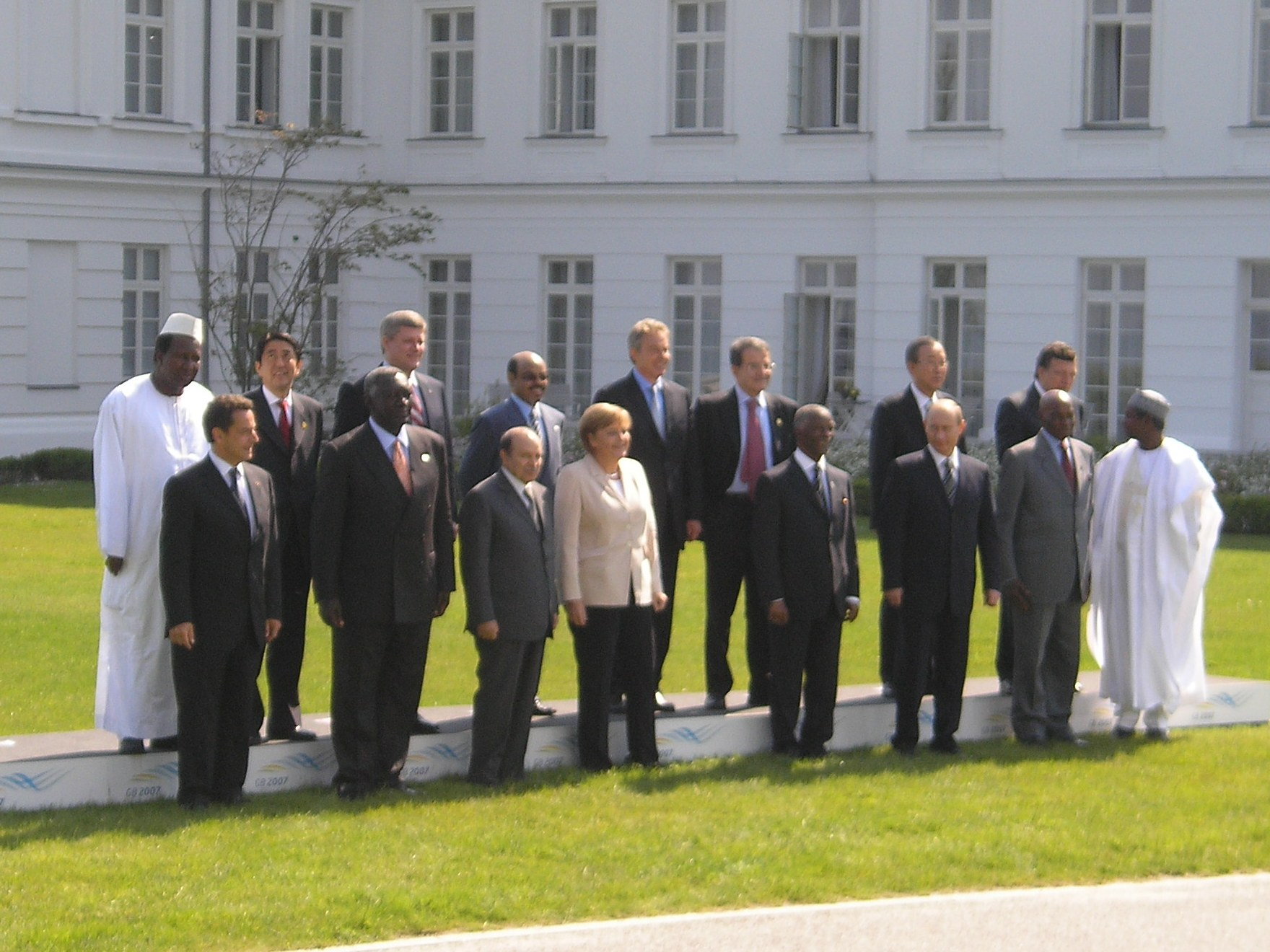 (left to right): Alpha Oumar Konaré of Mali, head of the African Union, French President Nicolas Sarkozy, Japanese Prime Minister Shinzo Abe, Ghana president John Kufuor, Canadian Prime Minister Stephen Harper, Algerian president Abdelaziz Bouteflika, Ethiopian Prime Minister Meles Zenawi, German chancellor Angela Merkel, British Prime Minister Tony Blair, Italian Prime Minister Romano Prodi, South African president Thabo Mbeki, Russian president Vladimir Putin, UN Secretary-General Ban Ki-moon, Senegal president Abdoulaye Wade, EU Commission President José Manuel Barroso, and Nigerian president Umaru Yar'Adua.